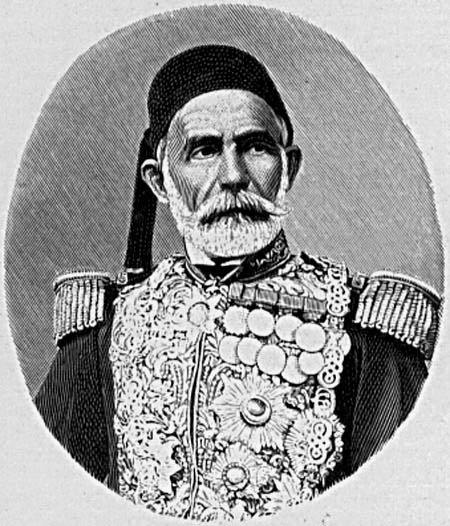 Portrait of Omer Pasha, 1806-1871